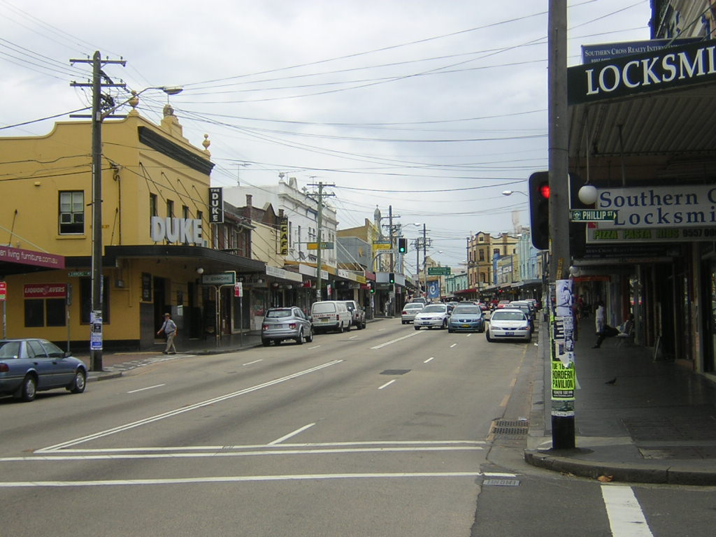 Taken Jan(?) 2007, Coolpix 2100. lokking for Harvin film laboratory in the enmore road 283-285